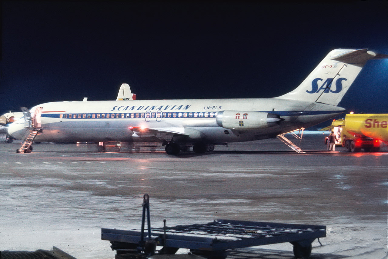 Scandinavian Airlines System (SAS) McDonnell Douglas DC-9-32 LN-RLS at Stockholm-Arlanda Airport